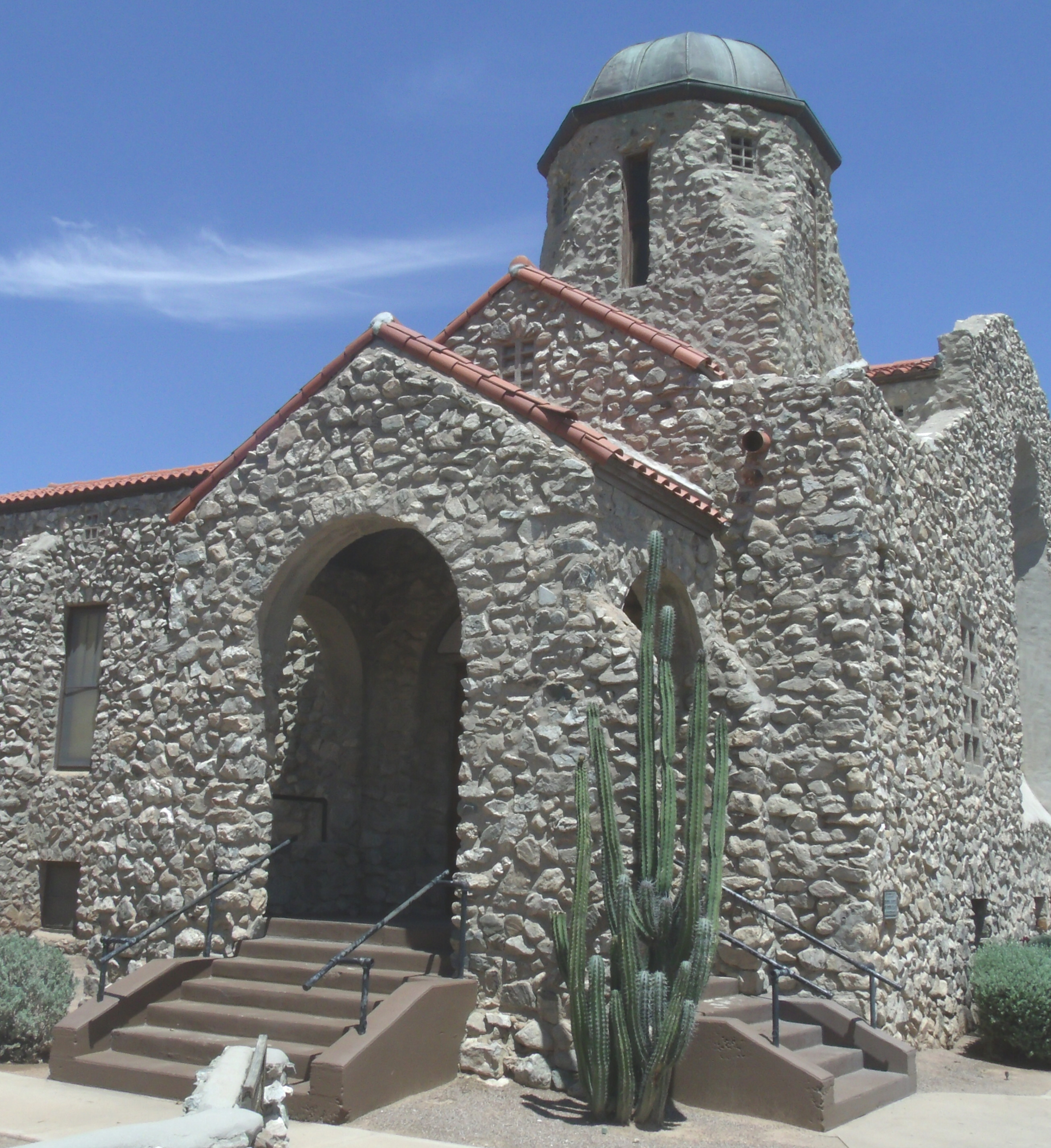 Close up view of the Casa Grande Stone Church (now known as Heritage Hall) was built in 1927 and is located at 110 W. Florence Boulevard. It was listed in the National Register of Historic Places in 1978, reference #78000567.